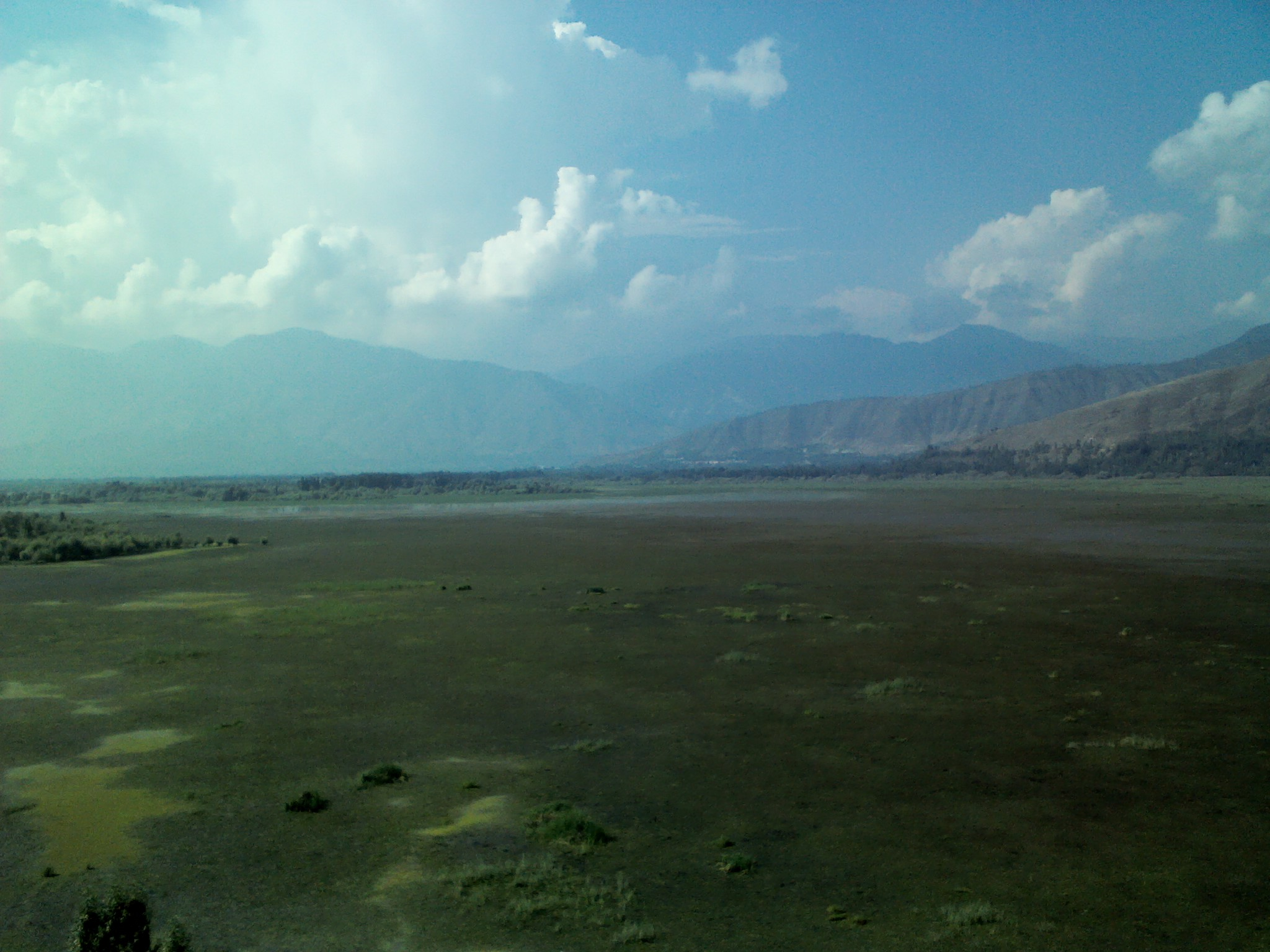 Wular lake from Saderkote park